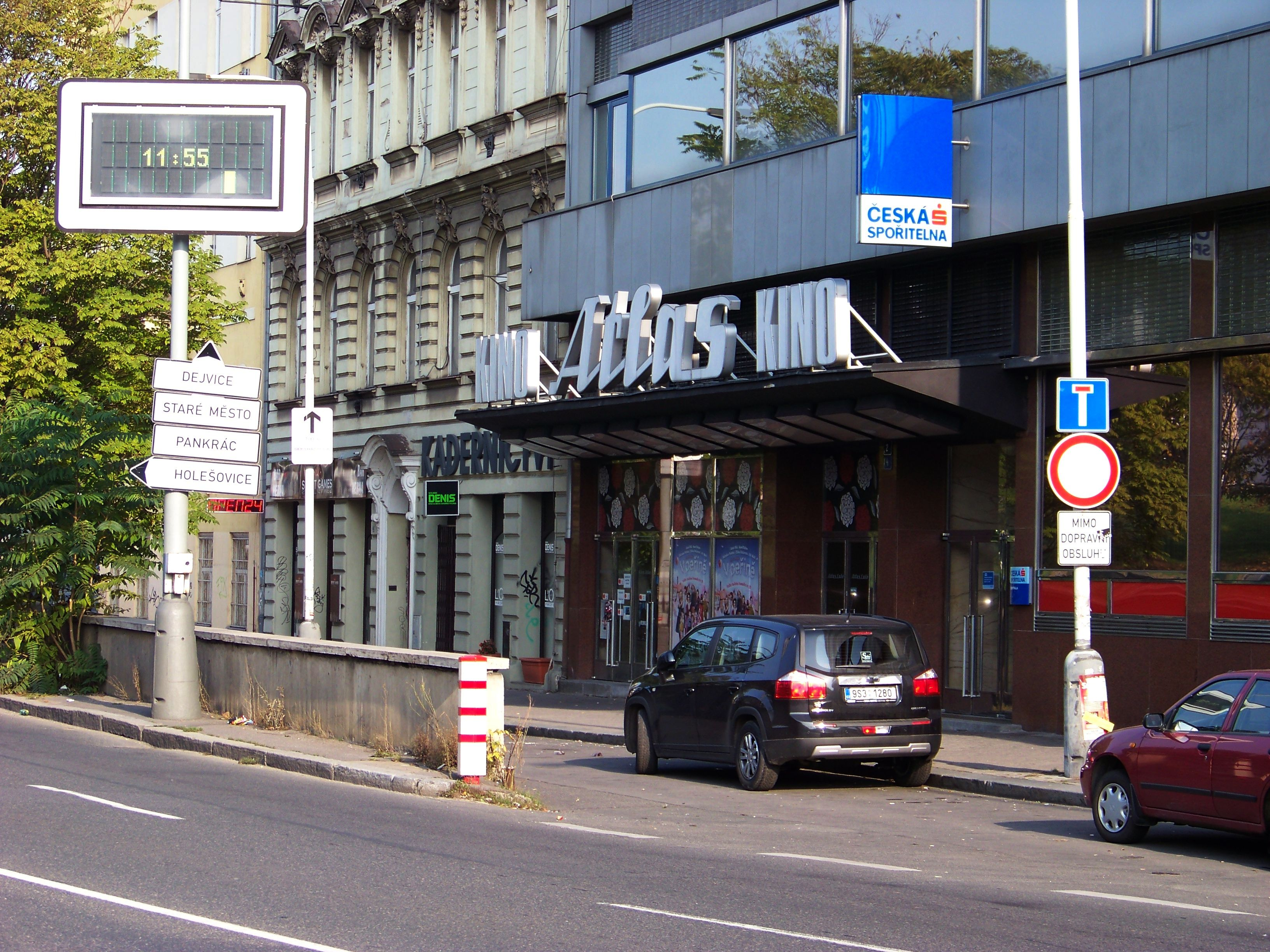 Prague-Karlín, the Czech Republic. Ke Štvanici street, Atlas Cinema.